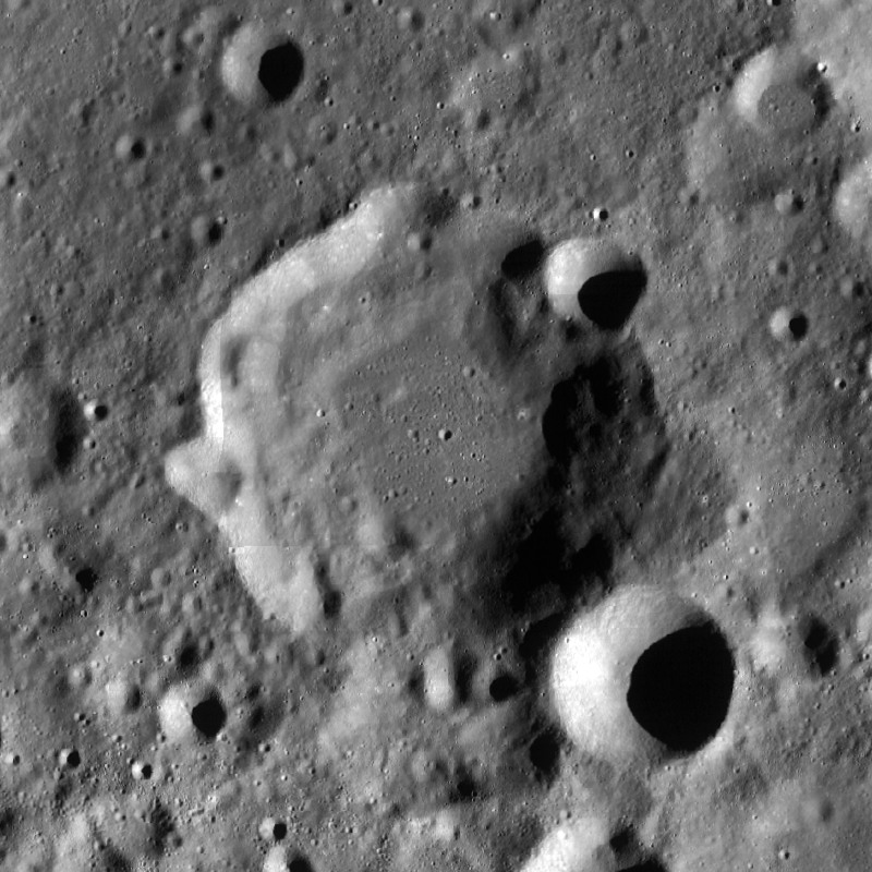 Parsons crater, on the far side of the moon. LRO Wide Angle Camera mosaic.